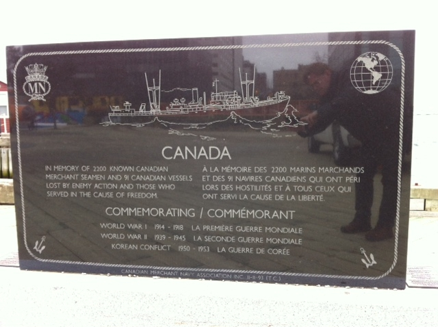 Merchant Marine Monument, Sackville Landing, Halifax, Nova Scotia